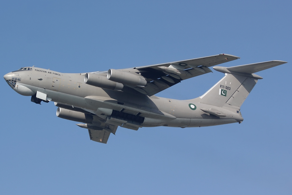 Ilyushin Il-78 (R11-003)